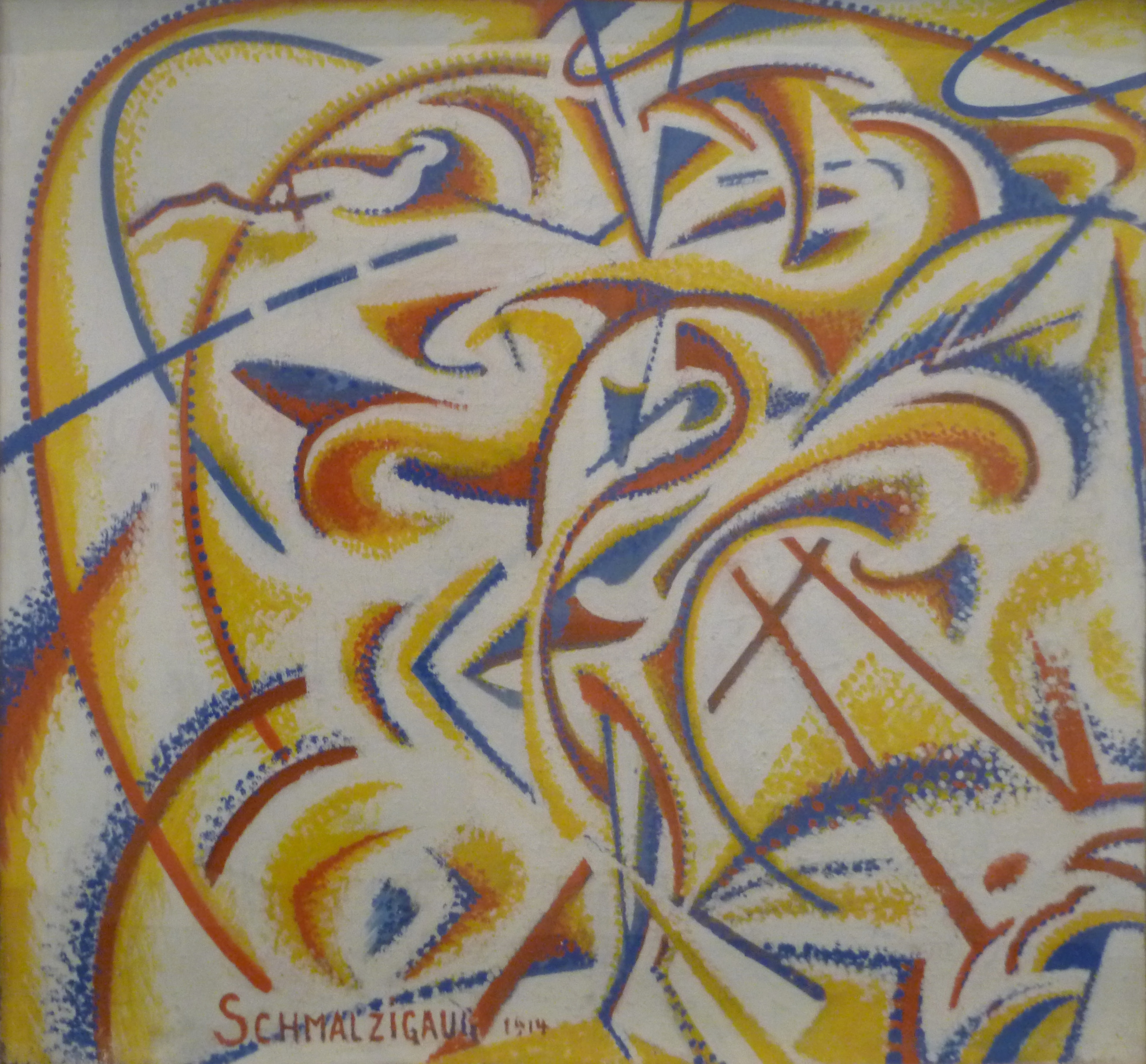 Jules Schmalzigaug (1914); "Dynamic expression of a moving dancer"; distemper on canvas; collection Mu.ZEE, Oostende